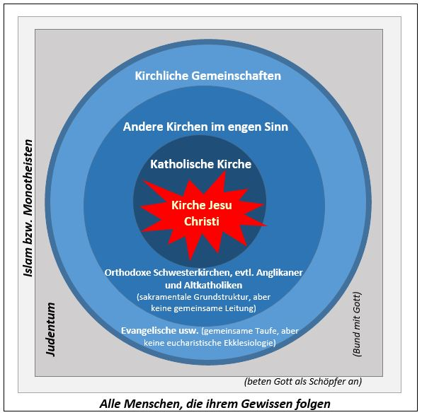 Ecclesiology of Roman Catholic Church according to Vatican II Council